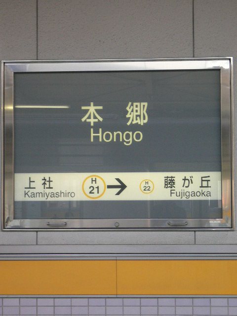 Hongo Station (本郷駅), Meito W, Nagoya C, Aichi P.